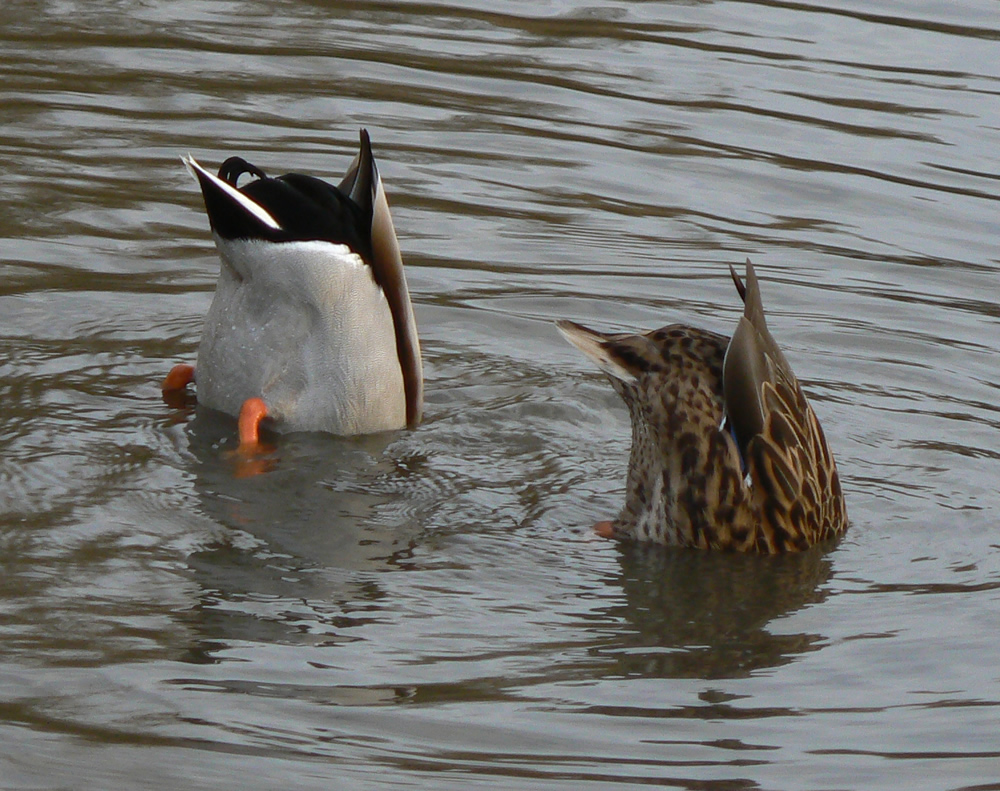 This is how ducks eat when they are not getting handouts (bread). Taken in Richmond Park, London.